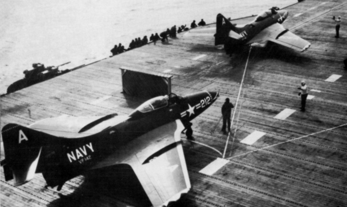 Two U.S. Navy Grumman F9F-6 Cougar fighters from Fighter Squadron VF-142 Fighting Falcons on the aircraft carrier USS Randolph (CVA-15). VF-142 was assigned to Carrier Air Group 14 (CVG-14) aboard the Randolph for a deployment to the Mediterranean Sea from 3 February to 6 August 1954.